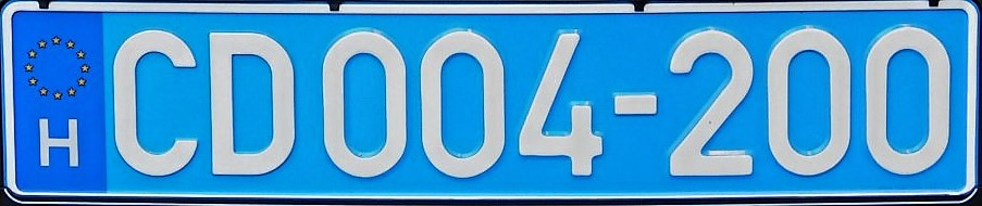 Hungarian license plate for diplomatic corps (since 2017)